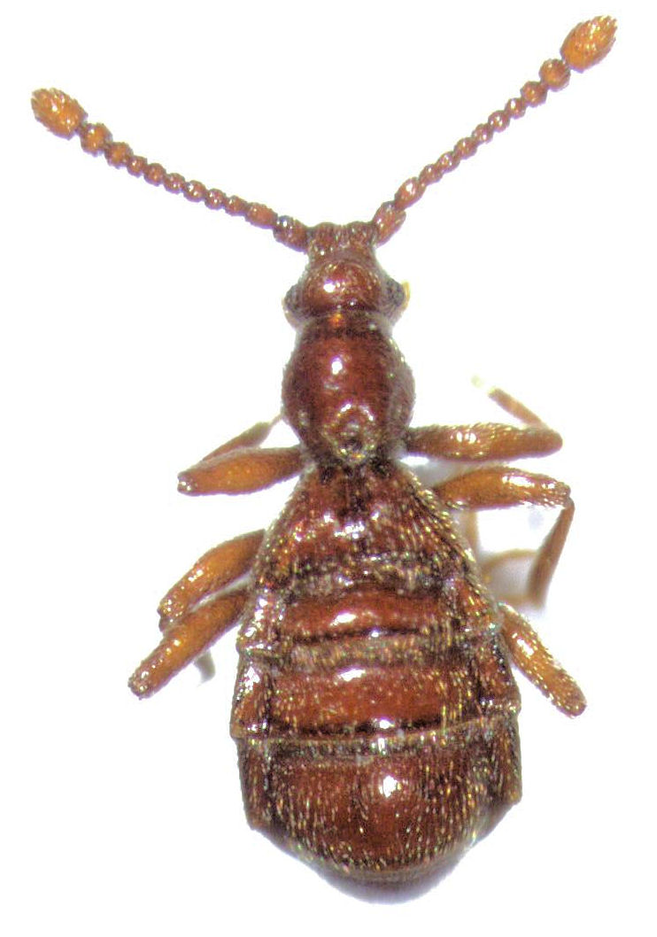 adult Phormiobius halli